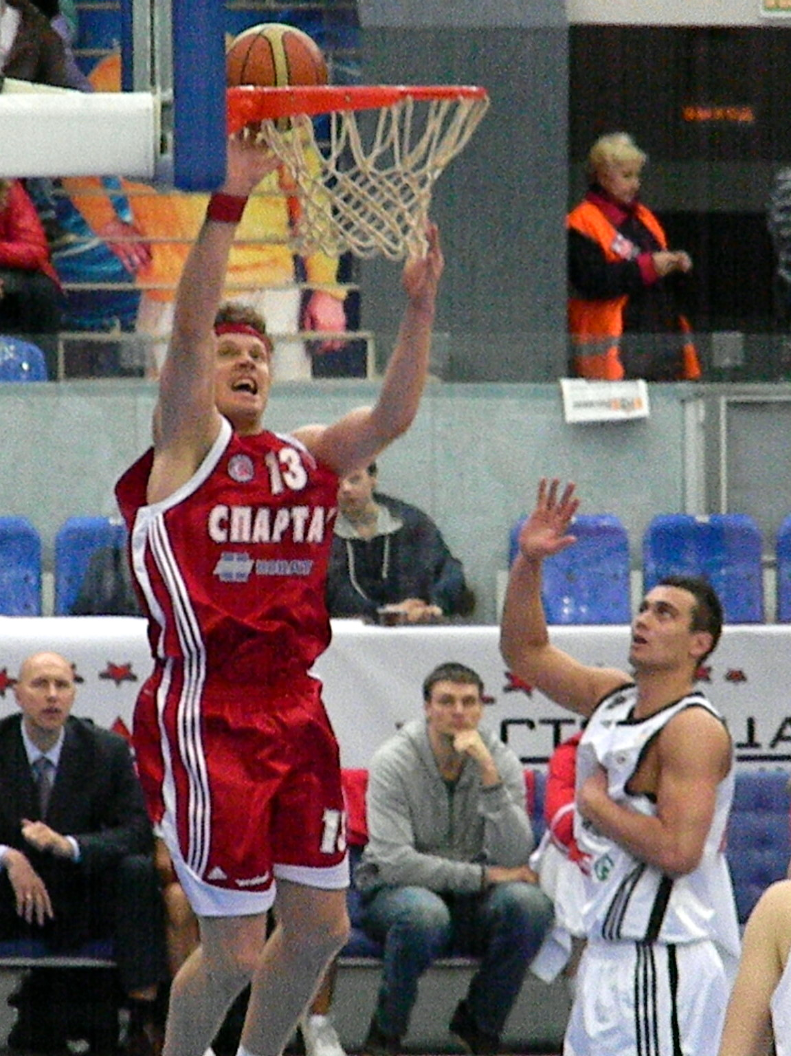 Miha Zupan, slovenian basketball player from Spartak Saint-Petersburg in the game against BC Nizhny Novgorod on March 13th, 2011